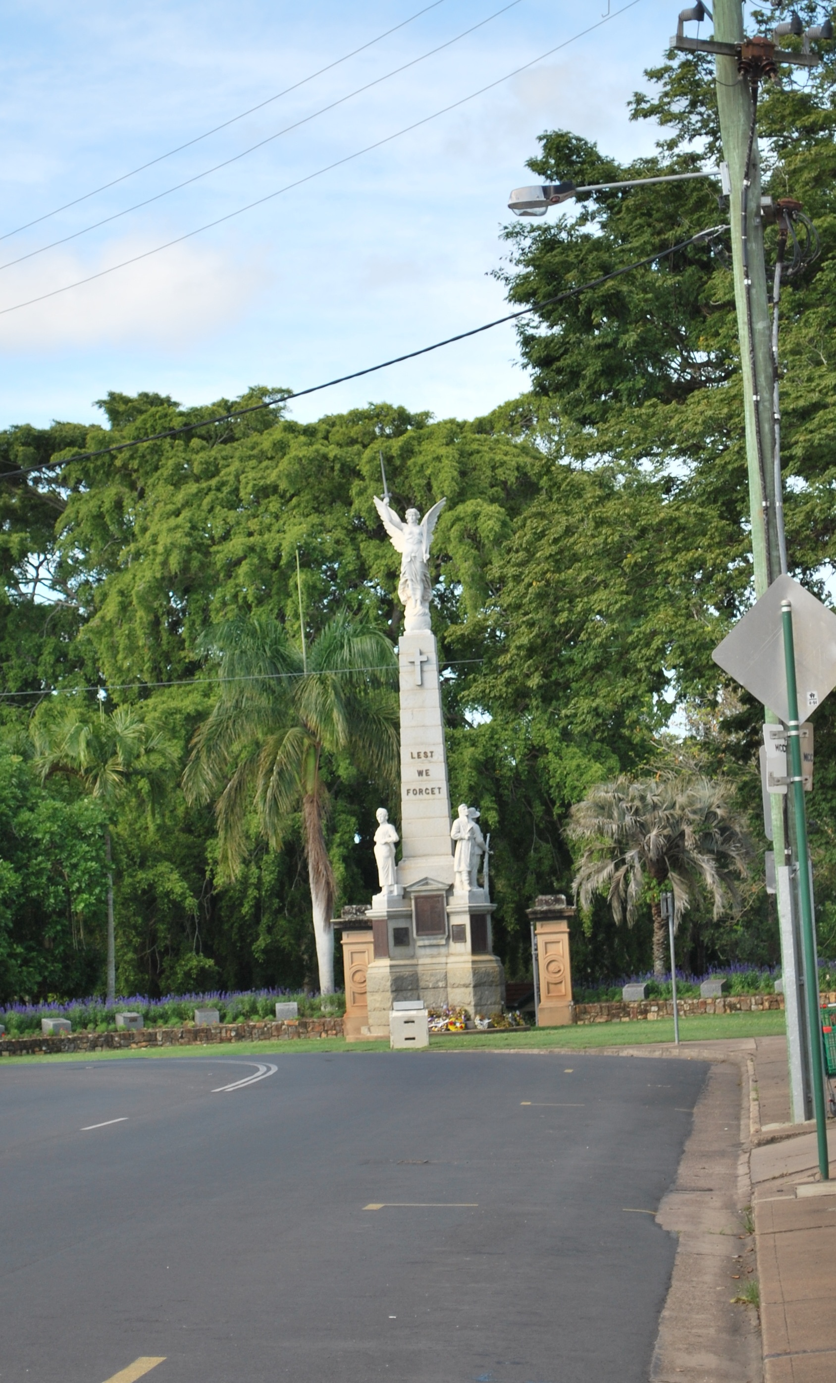 War memorial at Maryborough, Queensland, seen from a distance